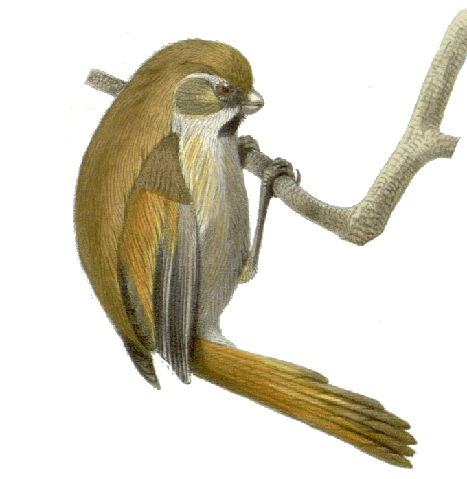 Paradoxornis verreauxi syn. Suthora verreauxi